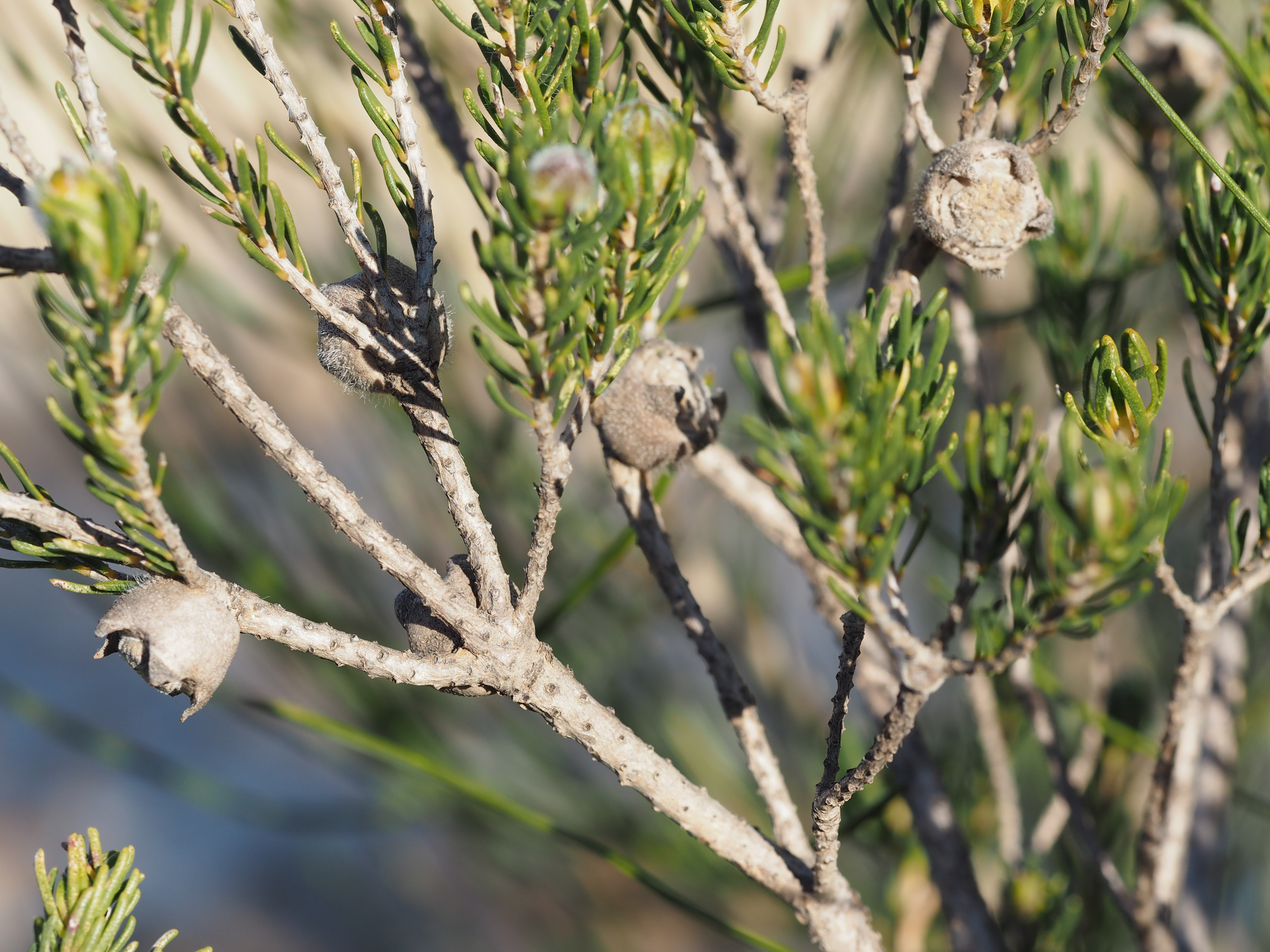 Eremaea ectadioclada growing 4 km south of Eneabba